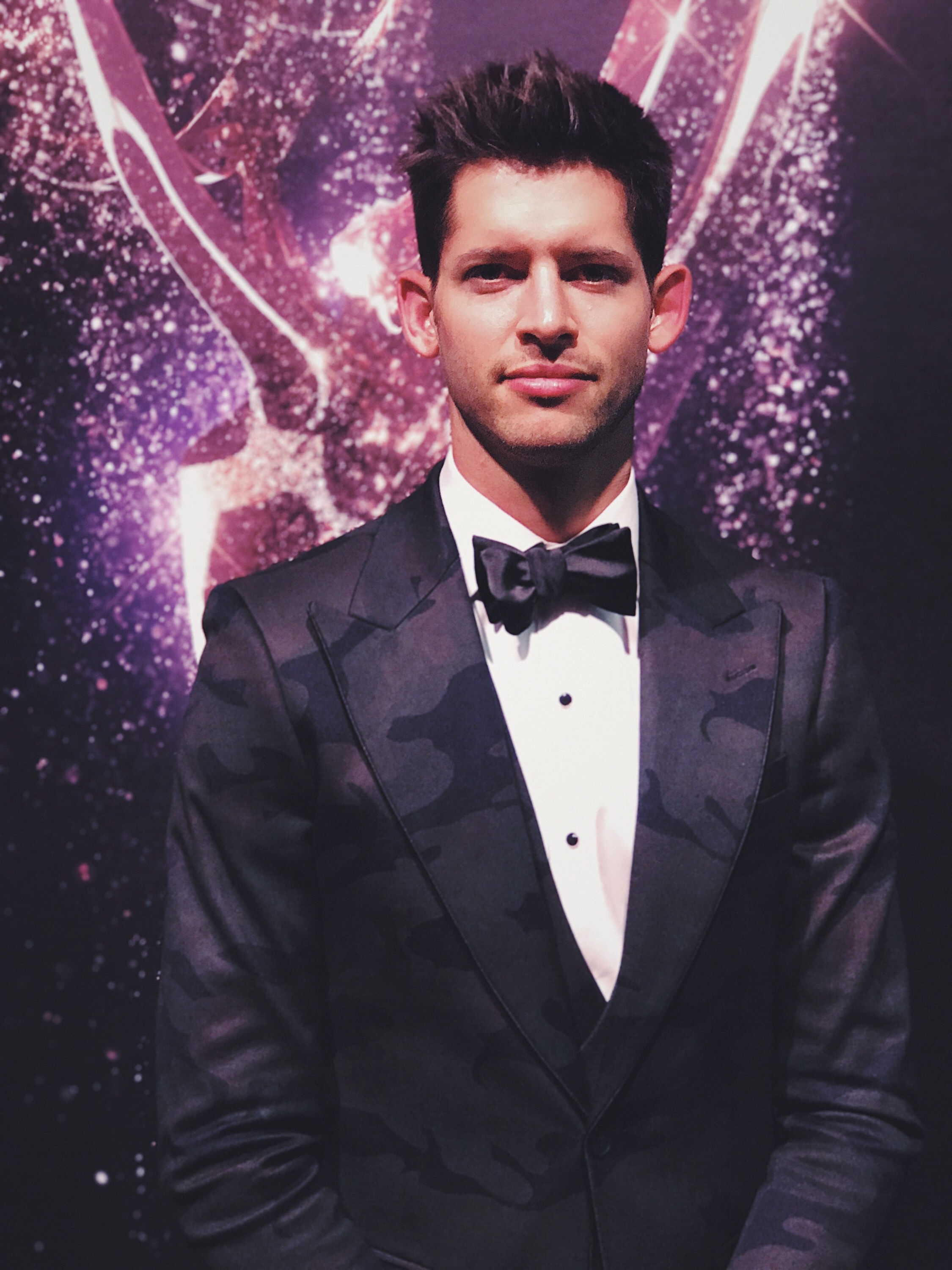 Hunter March on the red carpet for the 2018 Emmy's